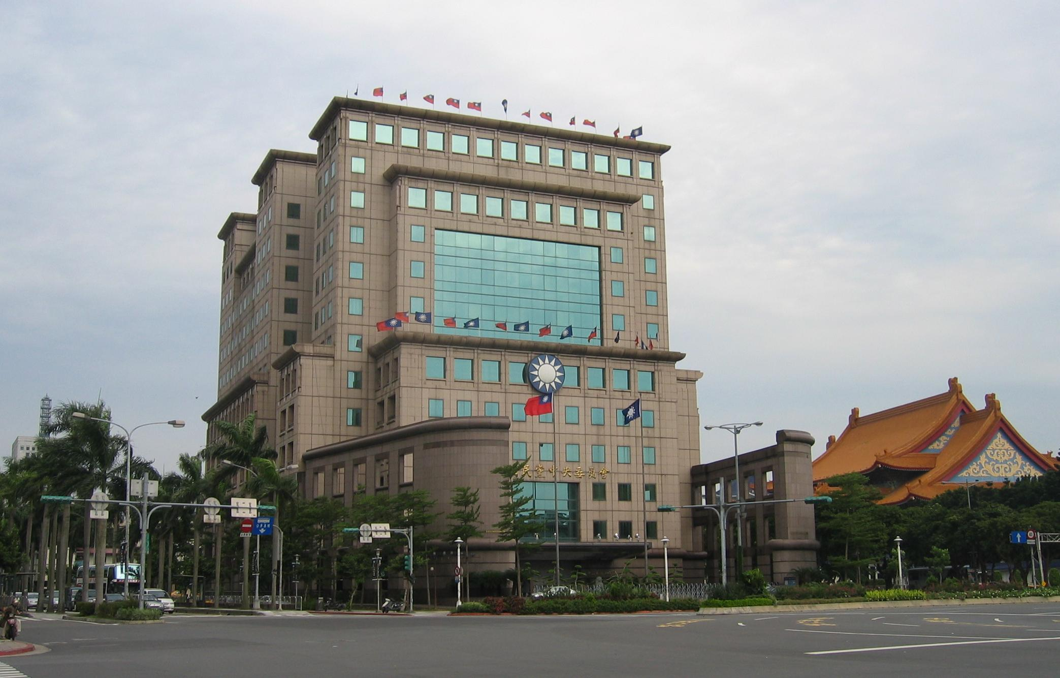 Former Kuomintang headquarters in Zhongzheng District, Taipei. Now owned by the Evergreen Group